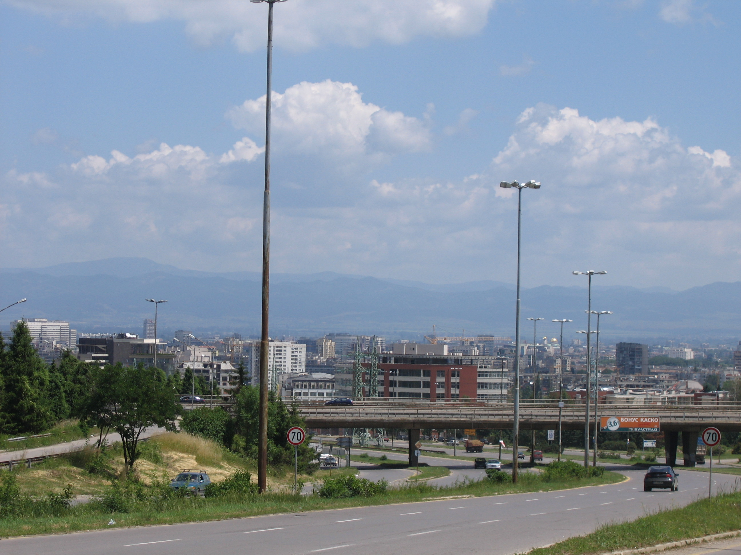 Bulgaria Blvd in Sofia, Bulgaria